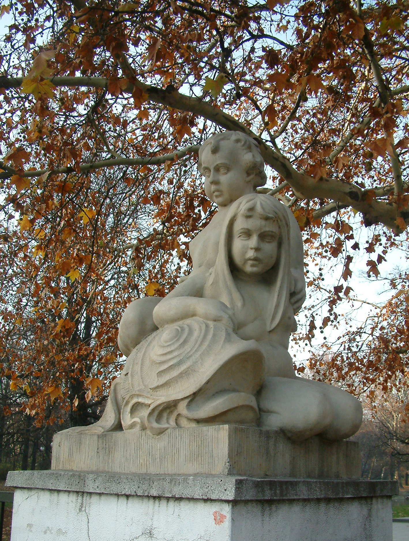 Entrance to Wilson's Park in Poznań from Głogowska Str. Detail